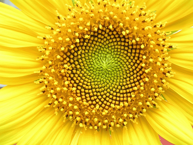 Helianthus flower, Bannerghatta Bangalore